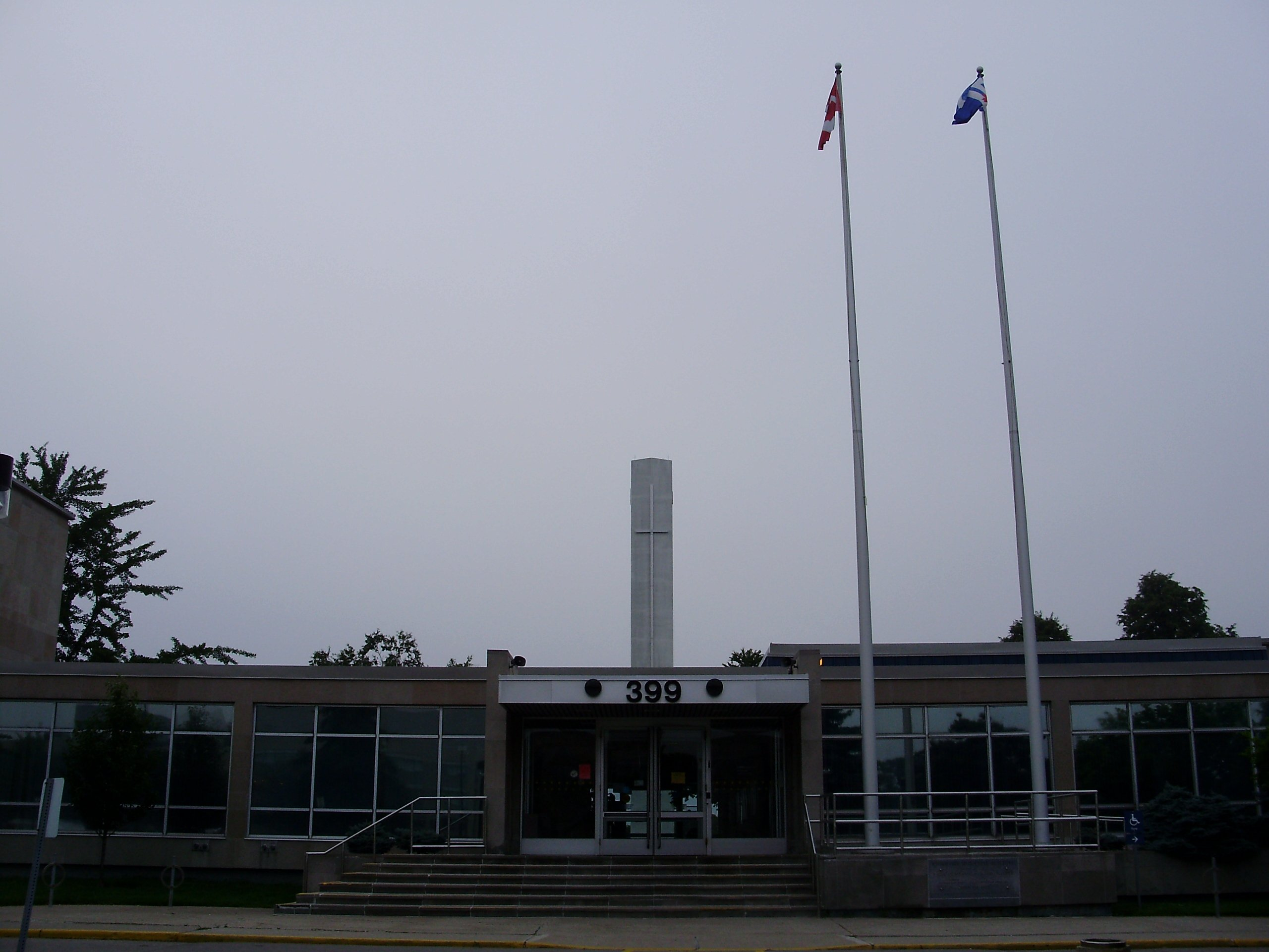 The Etobicoke Civic Centre in Etobicoke, Ontario, Canada. Prior to the amalgamation of Metropolitan Toronto in 1998, it housed Etobicoke's municipal offices.